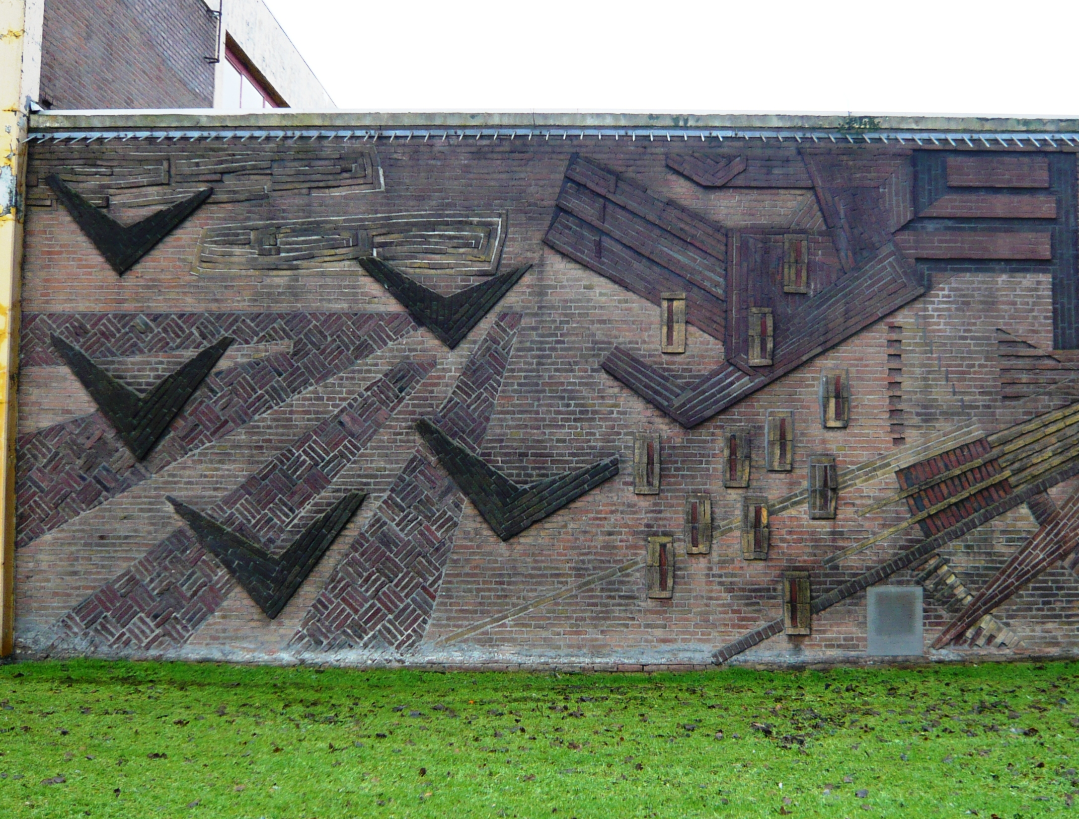 15 meter long allegory of baking bread for the Baker "Vermaat", brick, 1962-1963, Paul Krugerkade, Haarlem hand sows grain in a field with birds